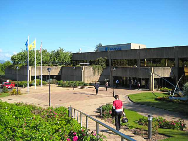 Aviva Perth The Pitheavlis office building with the company name updated and new flags raised outside.